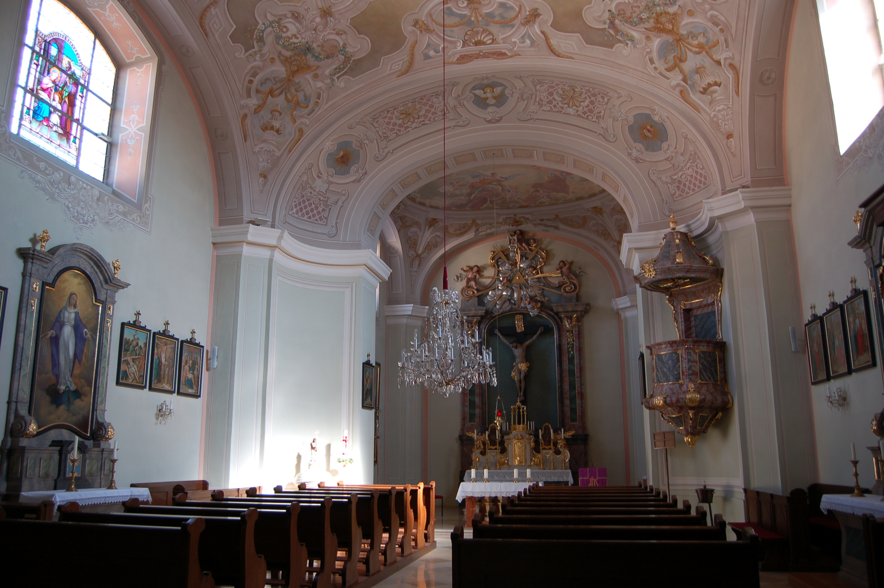 Interior of Holy Cross parish church in Theresienfeld, Lower Austria